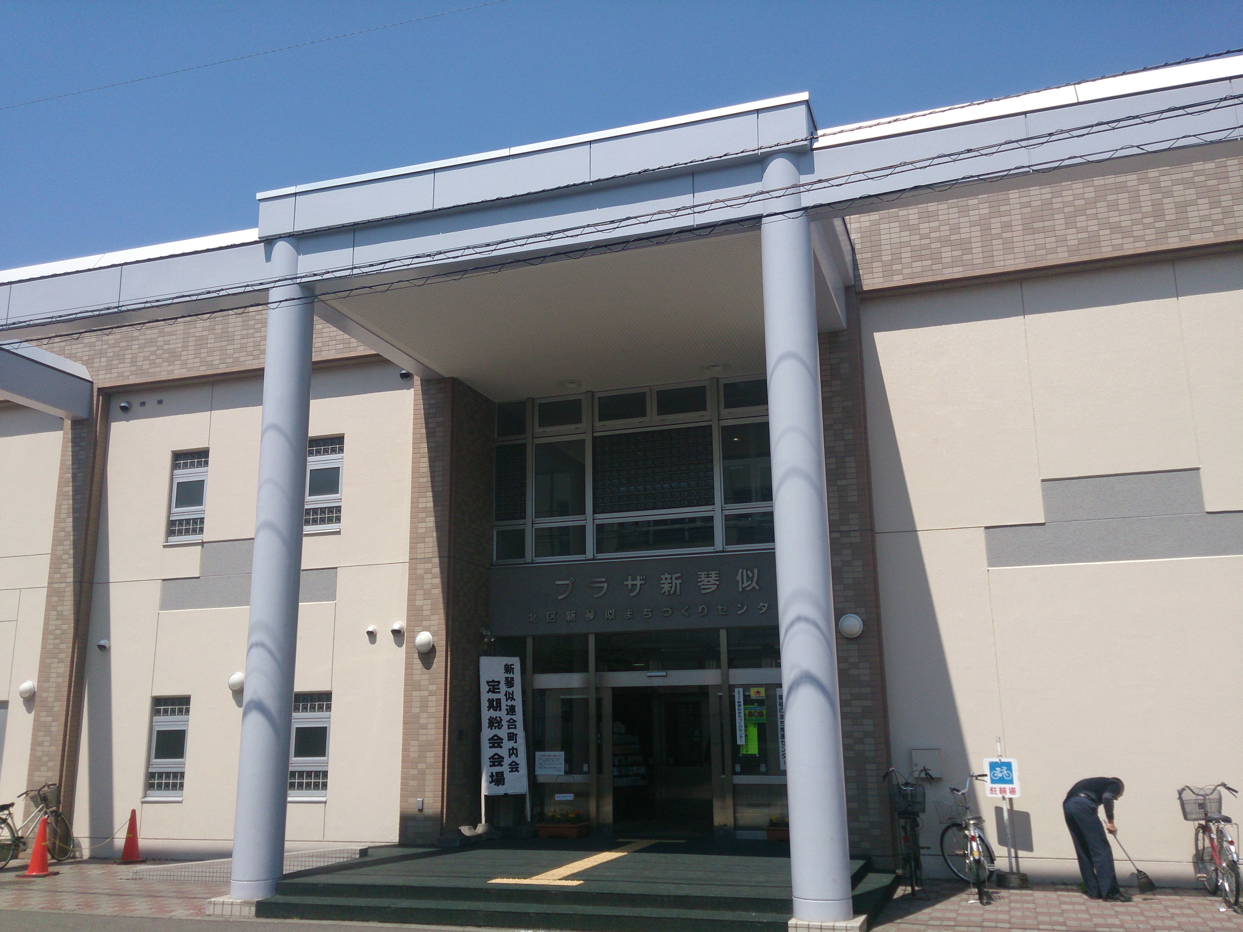 Plaza Shinkotoni